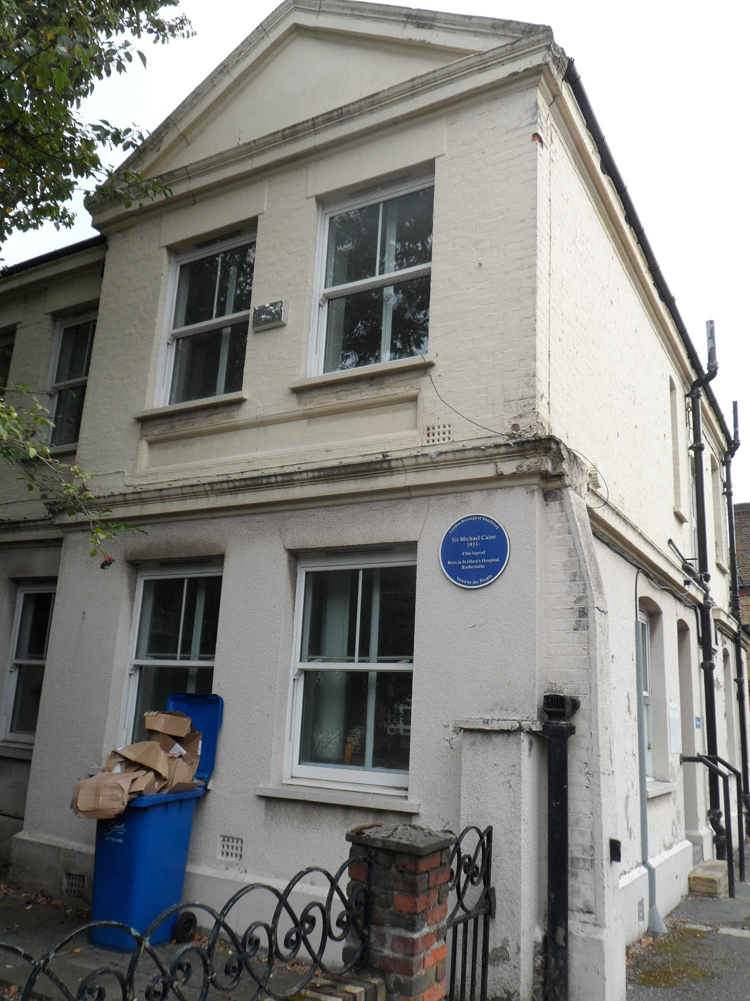 Sir Michael Caine 1933- Film legend Born in St Olave's hospital Rotherhithe - Gate House, St Olave's Hospital, Lower Road London SE16 7BN